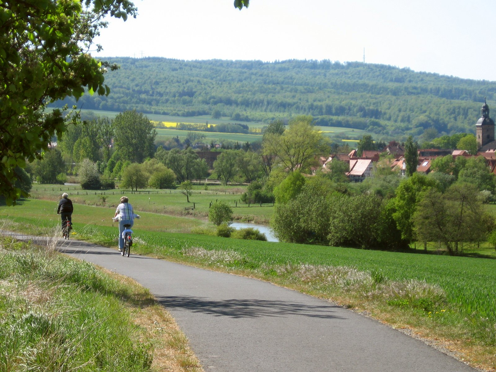 Germany / Hesse: Werra Cycle Path near Hedmünden